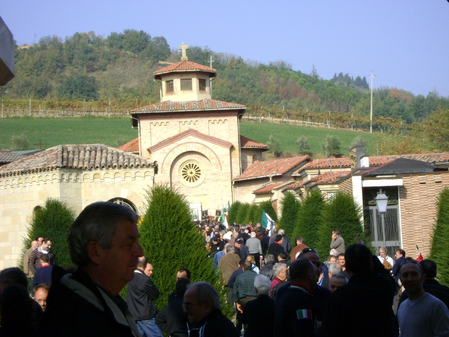 A fascist demonstration to the cemetery of Predappio in memory of the March on Rome